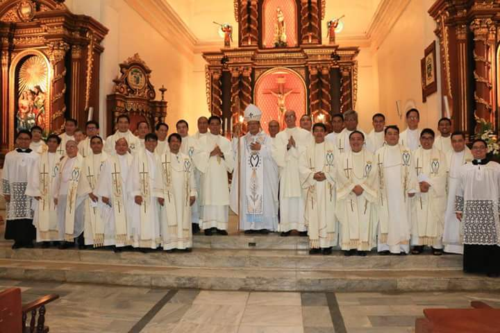 The clergy of the Diocese of Alaminos with Bishop Baccay at St. Joseph Cathedral Parish